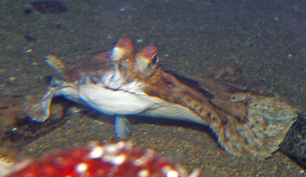 Photo of Parophrys vetulus (English sole) at the Vancouver Aquarium